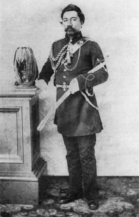 Peter Kaʻeo (1836-1880) was a Hawaiian noble and politicion. He contracted leprosy and was exiled to the colony on Molokai.